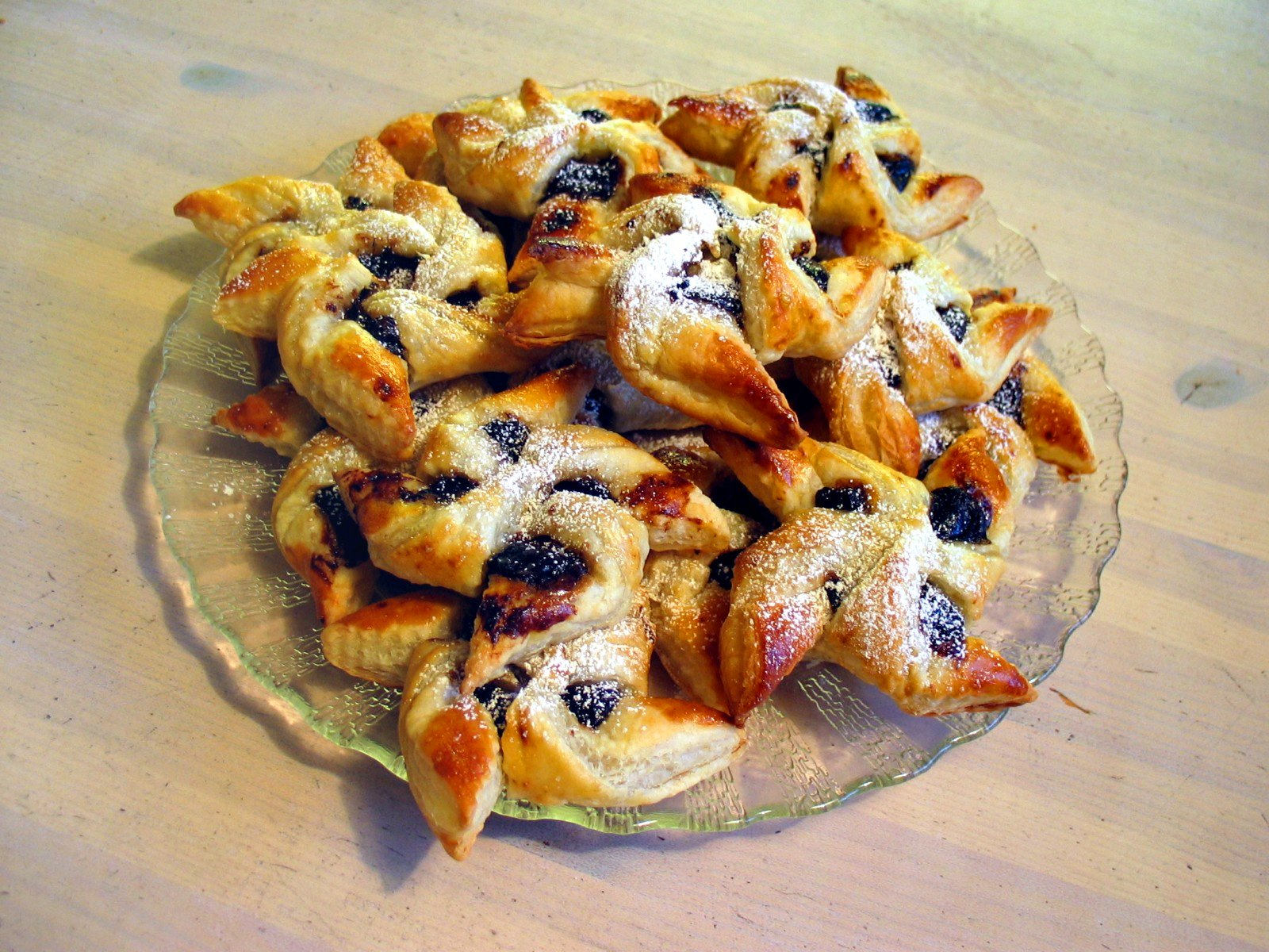 Finnish Christmas pastries filled with prune marmalade and topped with powdered sugar.